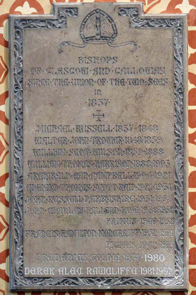 Photographer: Stewart D. Macfarlane Date: 29 July 2006 Location: St. Mary's Cathedral